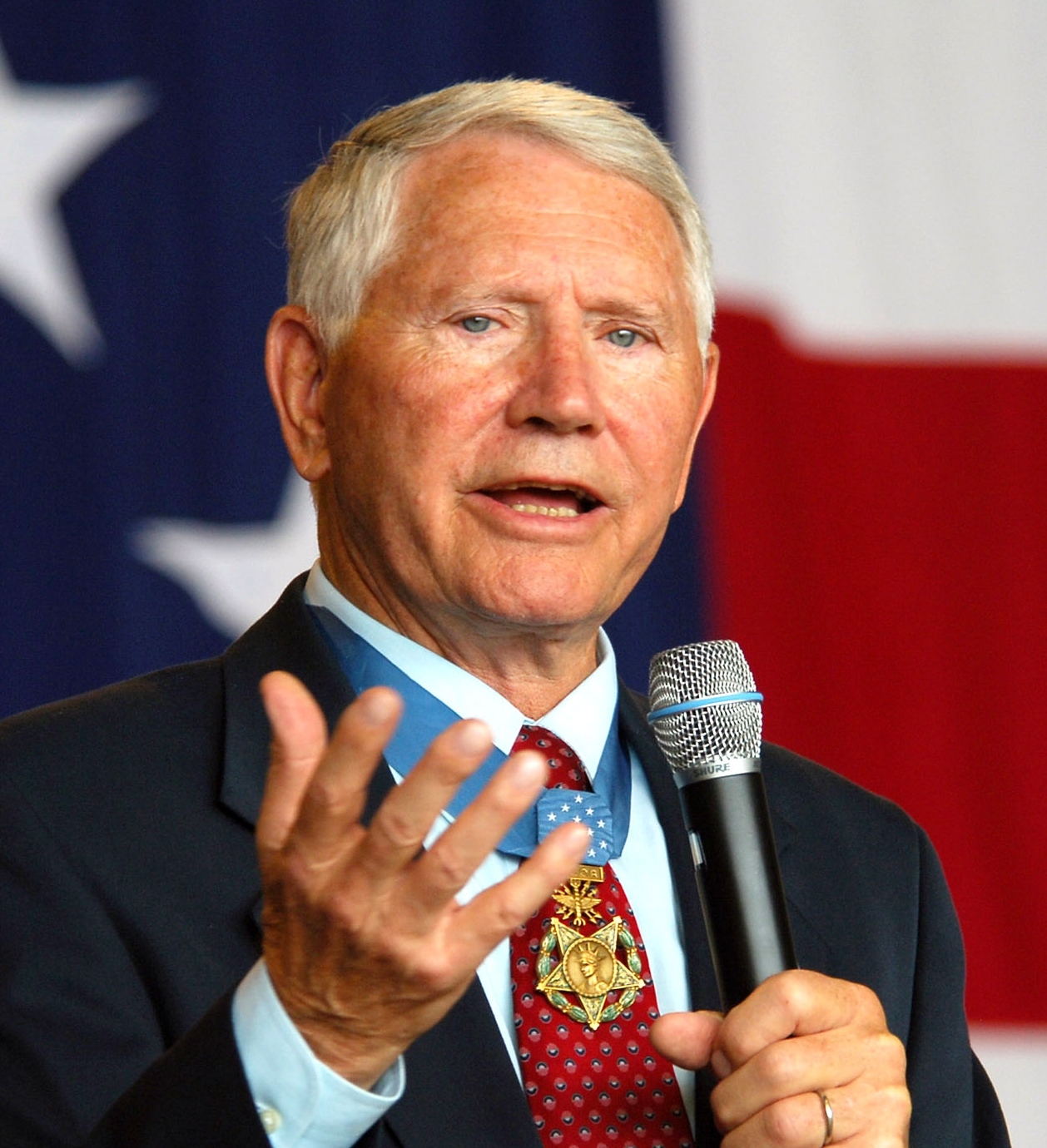 Retired Lt. Col. Leo Thorsness speaks at the U.S. Air Forces in Europe's Air Force 60th Anniversary celebration Aug. 11 Ramstein Air Base, Germany. Colonel Thorsness is a Medal of Honor recipient.